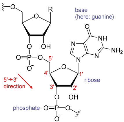 Diagram to illustrate 5' to 3' directionality in a nucleic acid (shown here in an RNA structure).